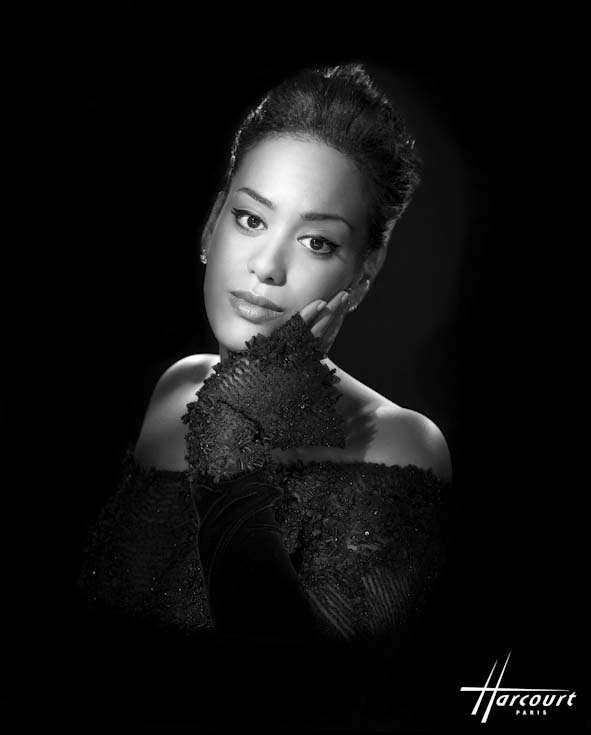 Amel Bent photographed by Studio Harcourt Paris